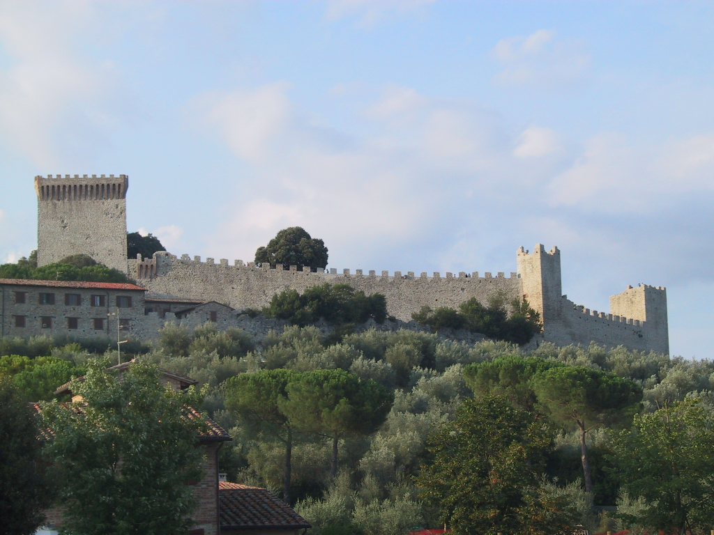 The Fortress in Castiglione del Lago, Umbria, Italy